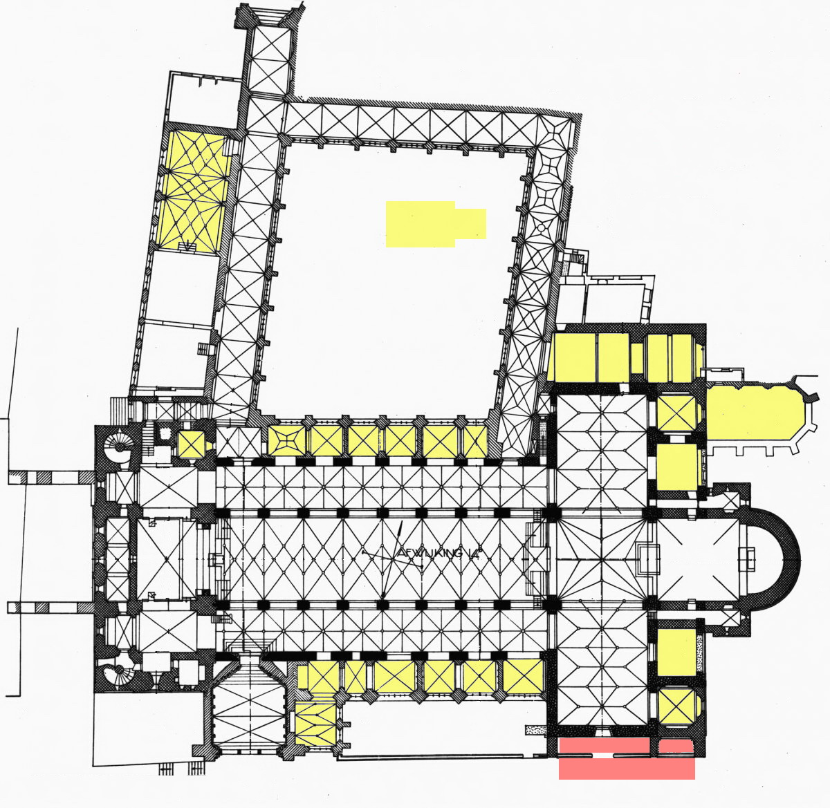 Locator map of chapels of the Basilica of Saint Servatius in Maastricht, the Netherlands. This map by an unknown author was first published in 1926 in Van Nispen tot Sevenaers De monumenten in de gemeente Maastricht, Deel 1, and donated to Wiki Commons by Rijksdienst voor het Cultureel Erfgoed on 7 January 2013. All colouring and other edits are by Kleon3. In yellow all 17 chapels of Sint-Servaasbasiliek in past and present. In red the chapel of Saint Maternus (demolished in 1804).